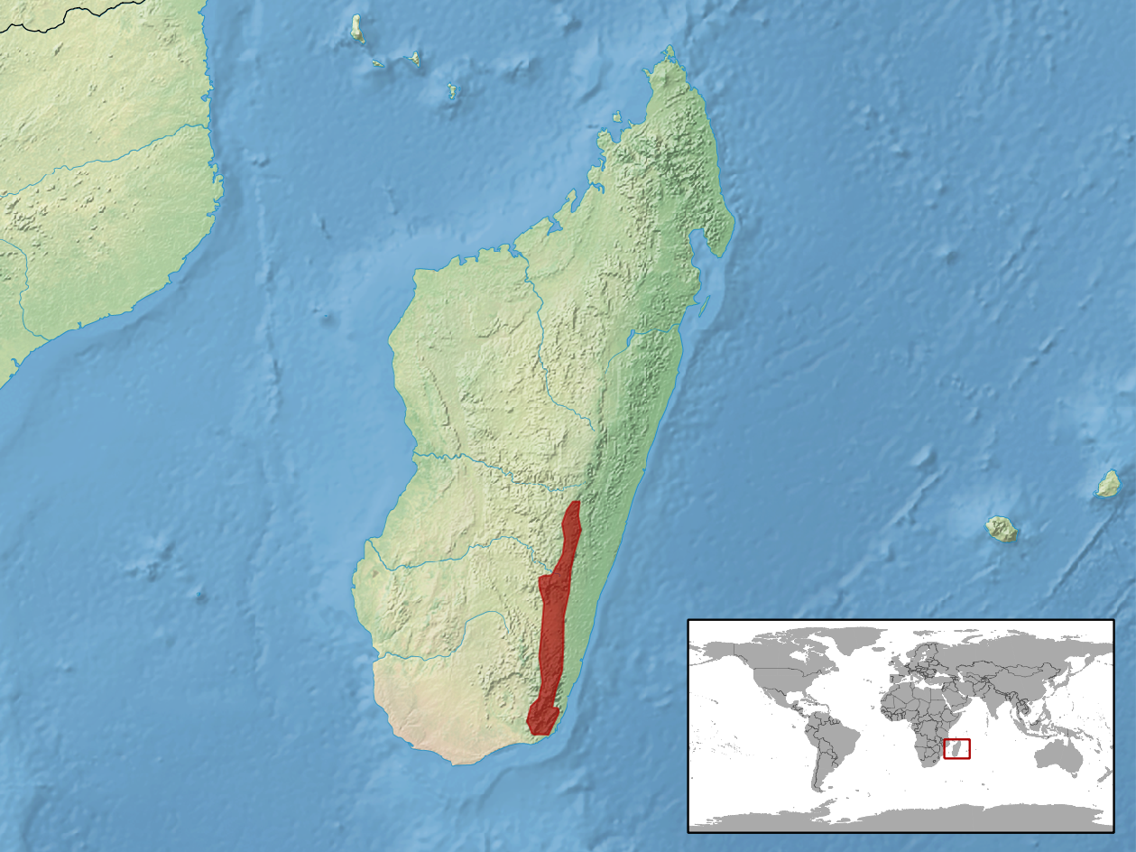 geographic distribution of Amphiglossus anosyensis